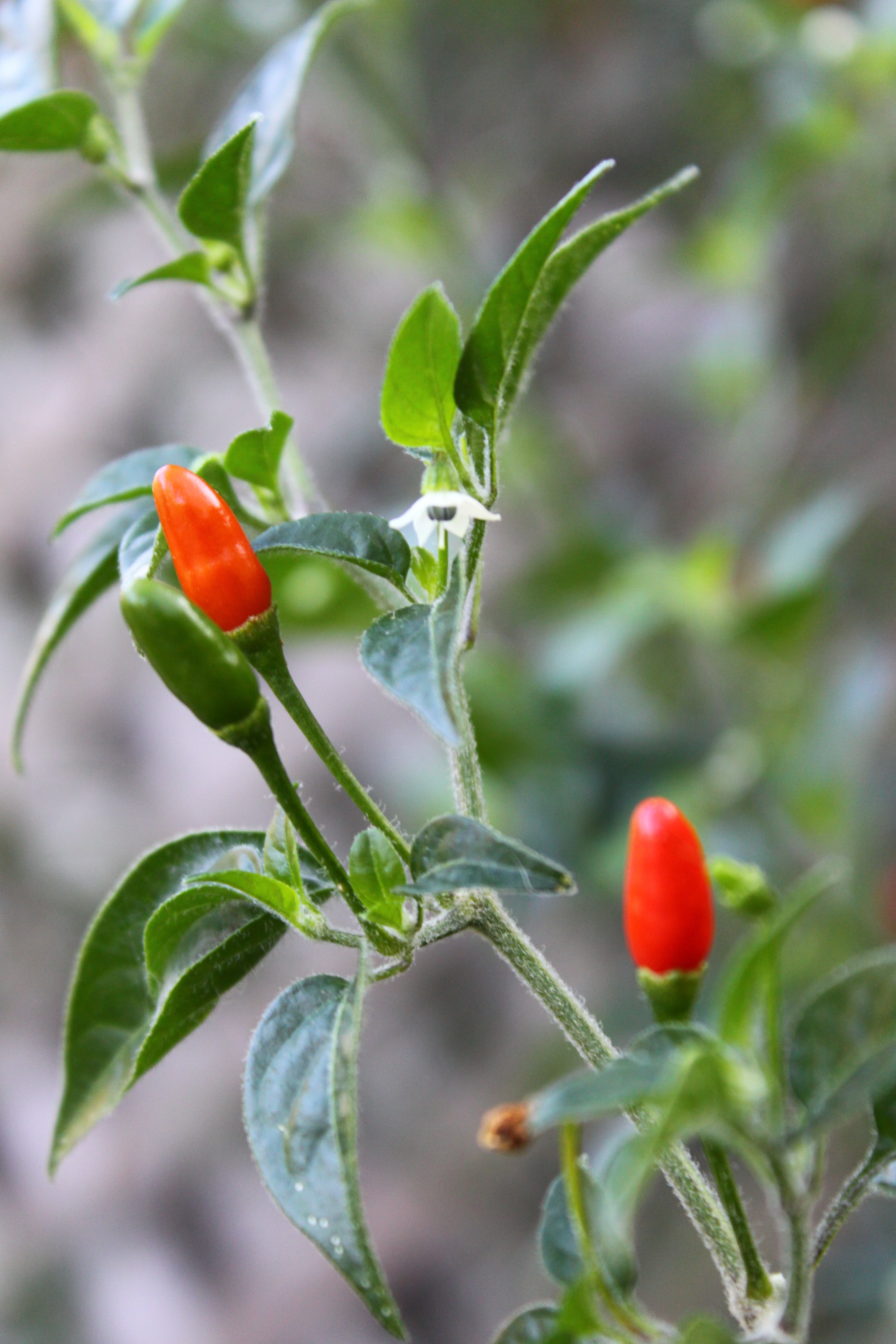 Chile pequin fruit and flower closeup